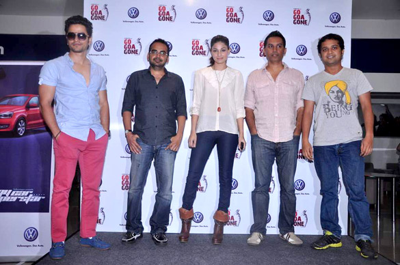 Kunal Khemu, Krishna DK, Puja Gupta, Raj Nidimoru, Anand Tiwari Promotions of 'Go Goa Gone' in association with Volkswagen